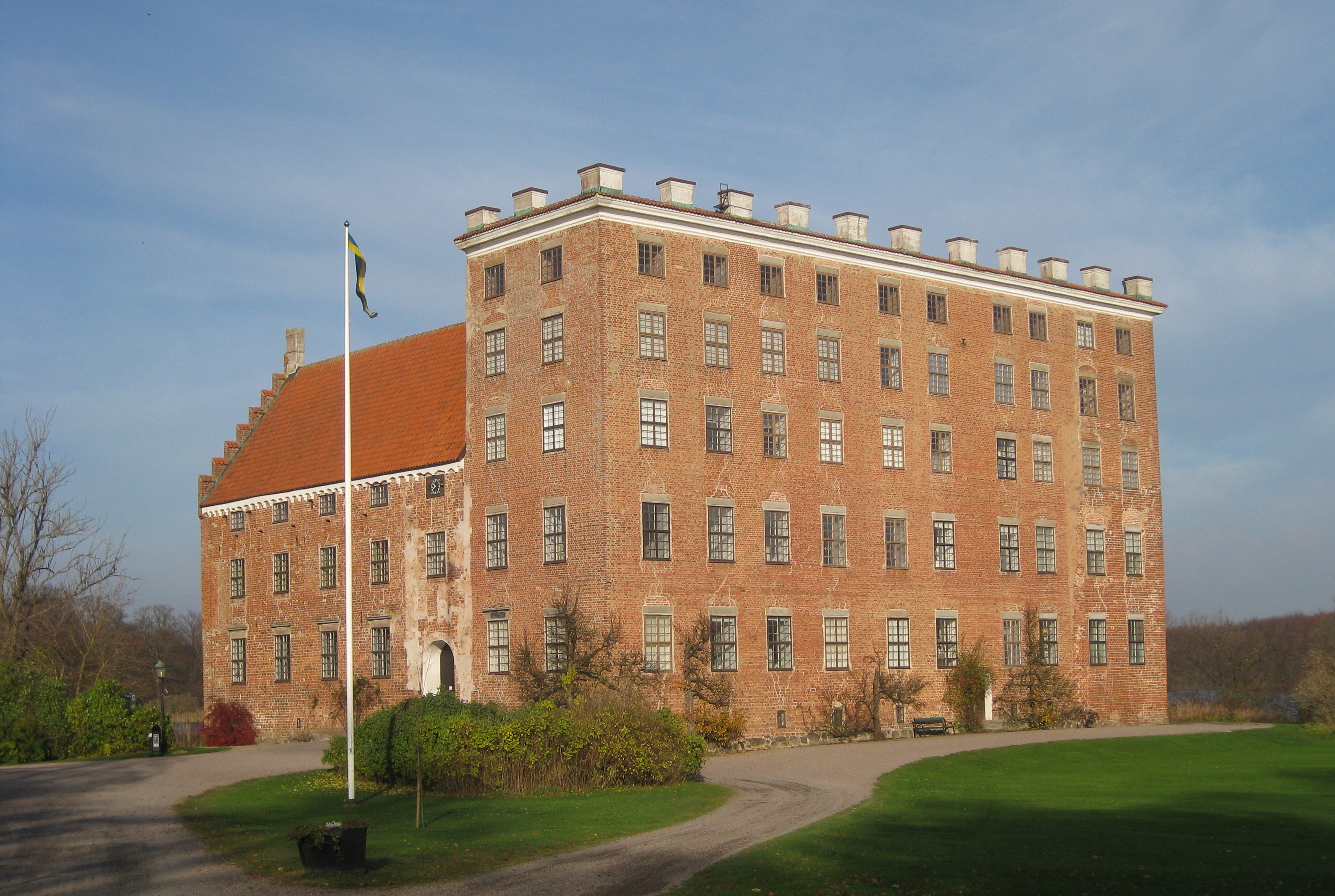 Svaneholm castle in Skurup, Scania, Sweden